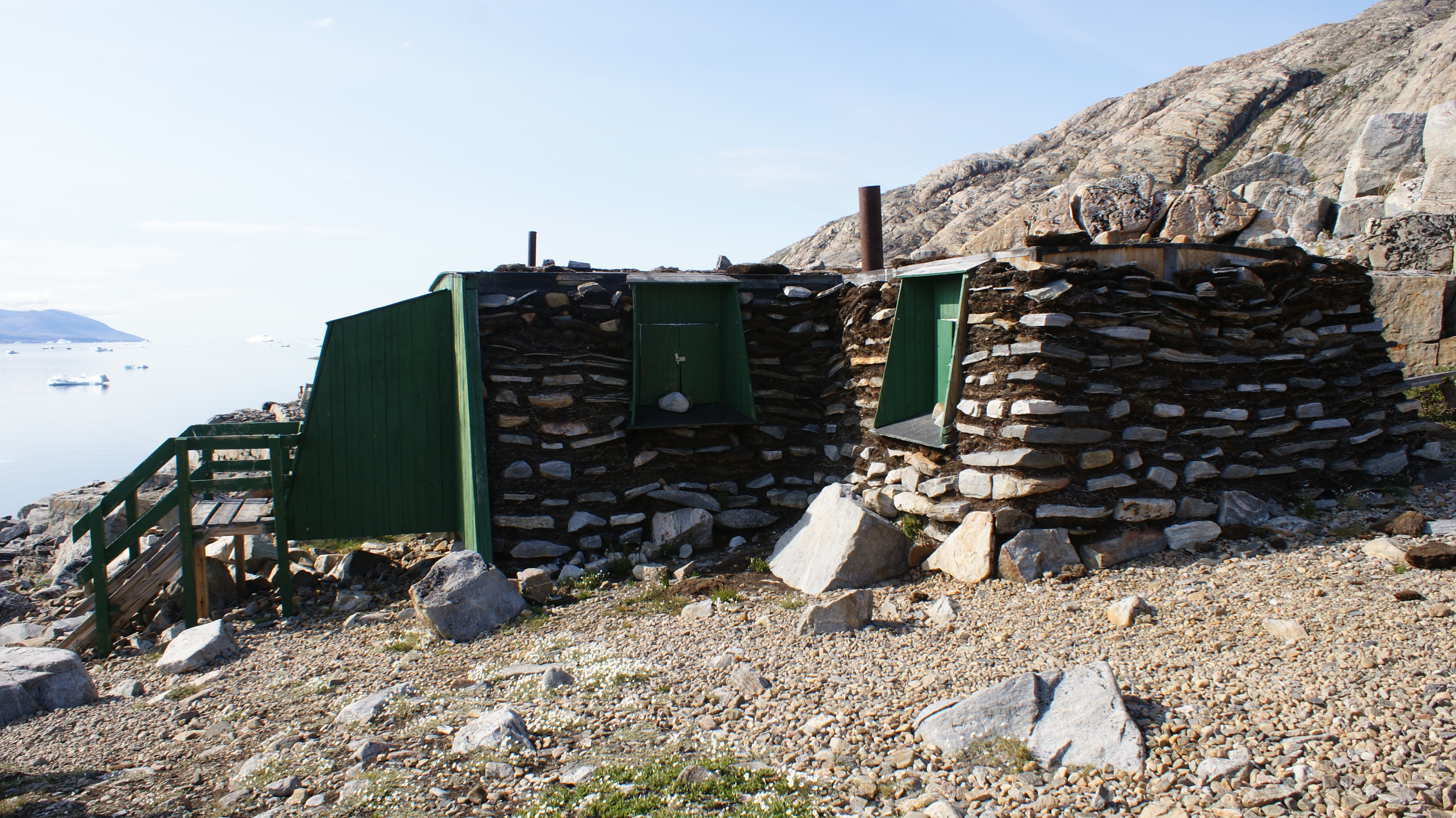 Uummannaq Island, Greenland. Santa Claus "Castle" in Qasigissat Bay, or a traditional turf hut converted into a tourist landmark.